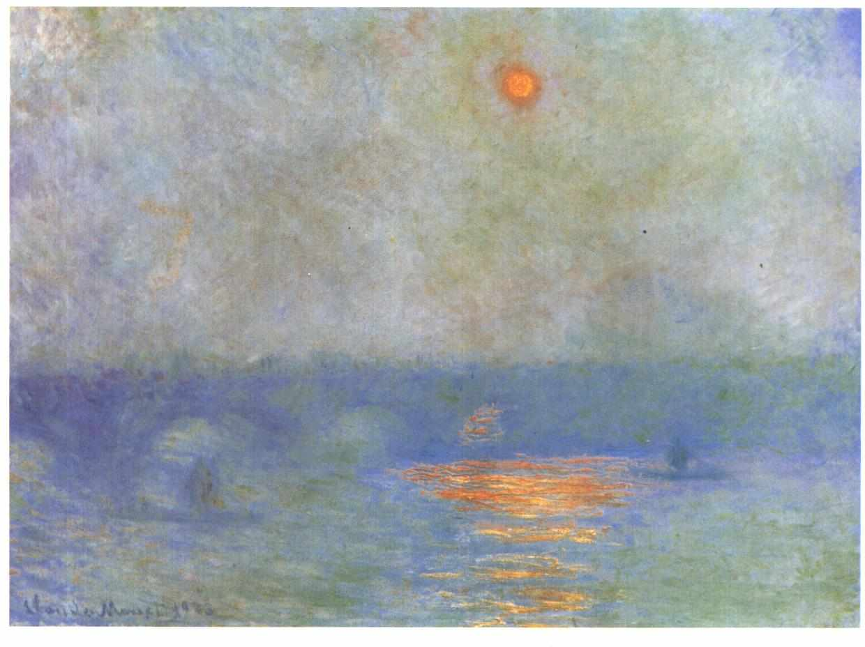 Waterloo Bridge - sun behind fog